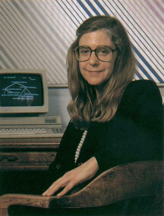 Computer scientist Margaret Hamilton